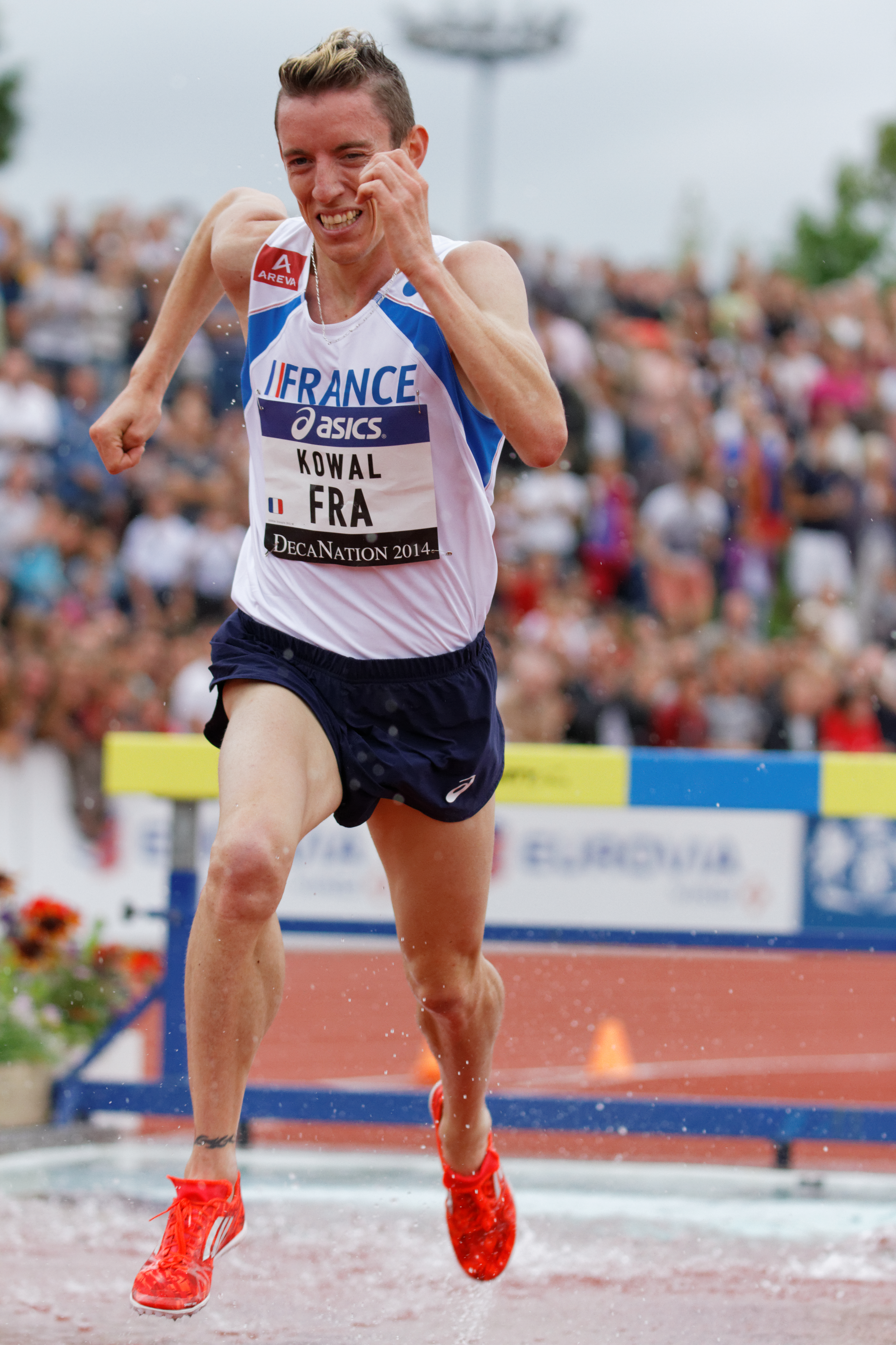 Yoann Kowal from France competing at DécaNation 2014 in the 3000m steeplechase.